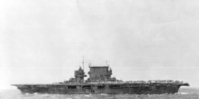 The U.S. Navy aircraft carrier USS Saratoga (CV-3), at sea to the east of Gaudalcanal Island, where she deployed her aircraft during the Battle of Savo Island.